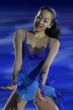 Mao asada during her "So Deep Is The Night" exhibition program at the 2008 World Championships.